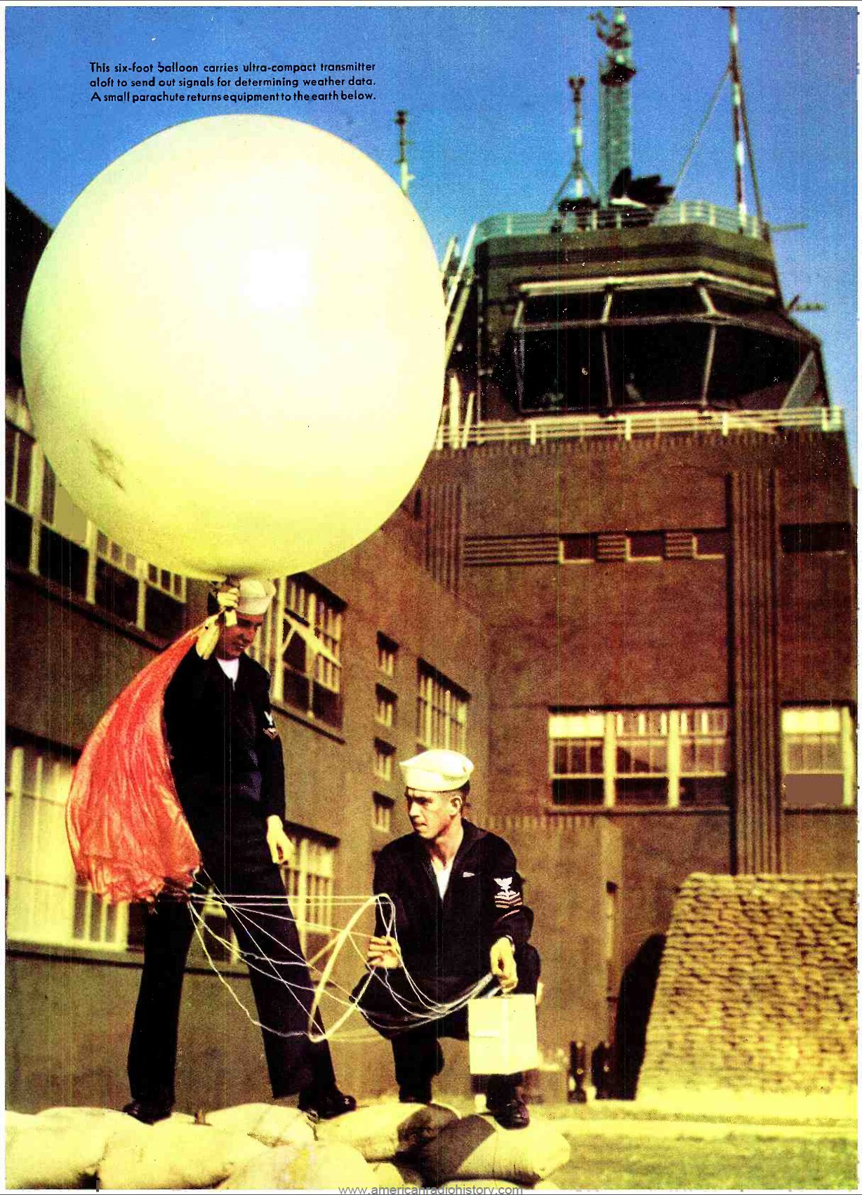 US sailors launching a radiosonde at a military airport in 1943 during World War 2. The radiosonde consists of a battery-powered instrument package (white box) carried aloft with a helium-filled weather balloon. As it ascends it measures temperature, humidity, and air pressure and radios the information to a ground receiver. At an altitude of around 70,000 ft (23 km) the balloon pops, and the radiosonde floats back to earth suspended by the the red parachute visible on the support line. By WW2 the US Weather Bureau launched weather balloons daily from 80 sites around the US